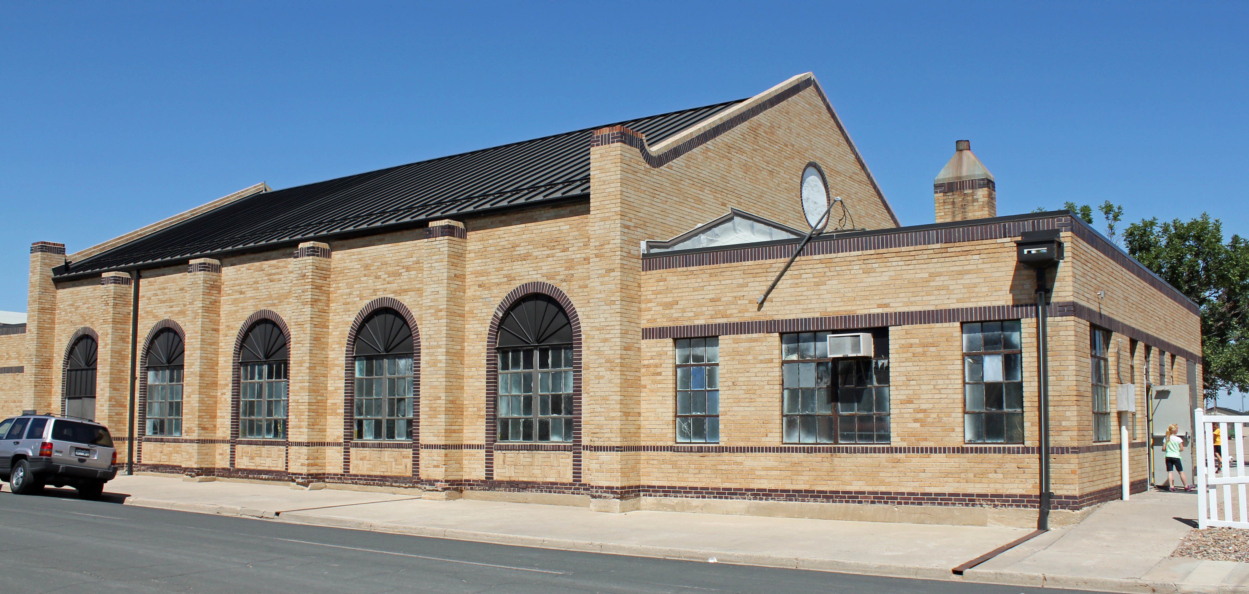 The Eads School Gymnasium, located in Eads, Colorado. The property is listed on the National Register of Historic Places.